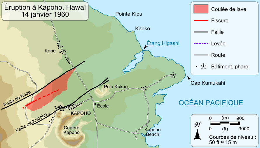 Map of the lava flow the january 14, 1960 during the 1960 Kilauea eruption, Hawaii, United States